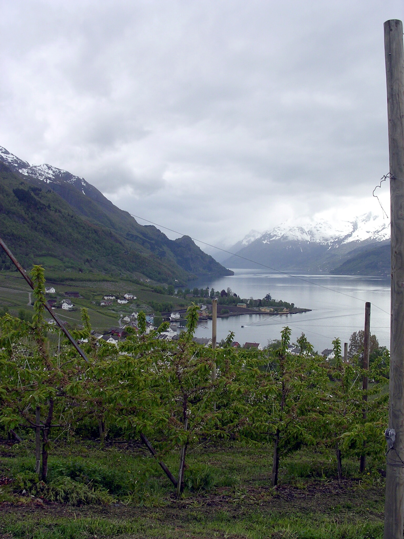 By the Hardangerfjorden in Norway, near Lofthus. Looking to south, see some apple trees.